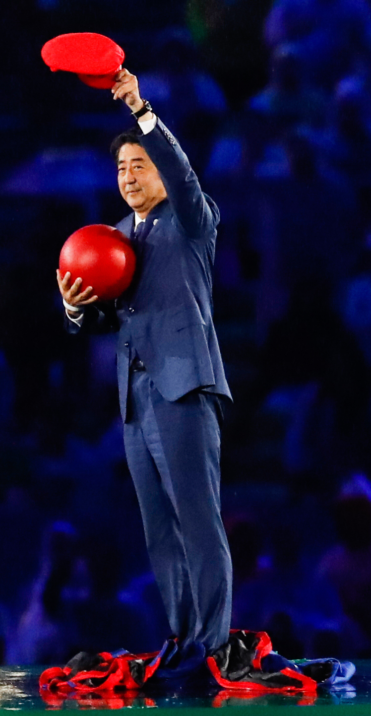 Rio de Janeiro - Cerimônia de encerramento dos Jogos Olímpicos Rio 2016, no Maracanã (Fernando Frazão/Agência Brasil)